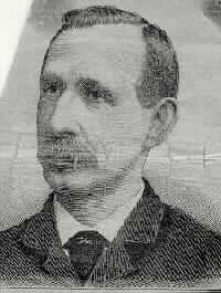 Copy of a newspaper clipping of Barney Aaron during his referee years. The caption read: "The veteran champion light-weight pugilist of America, appointed referree of the Smith-Walcott boxing bout in Boston, March 1."